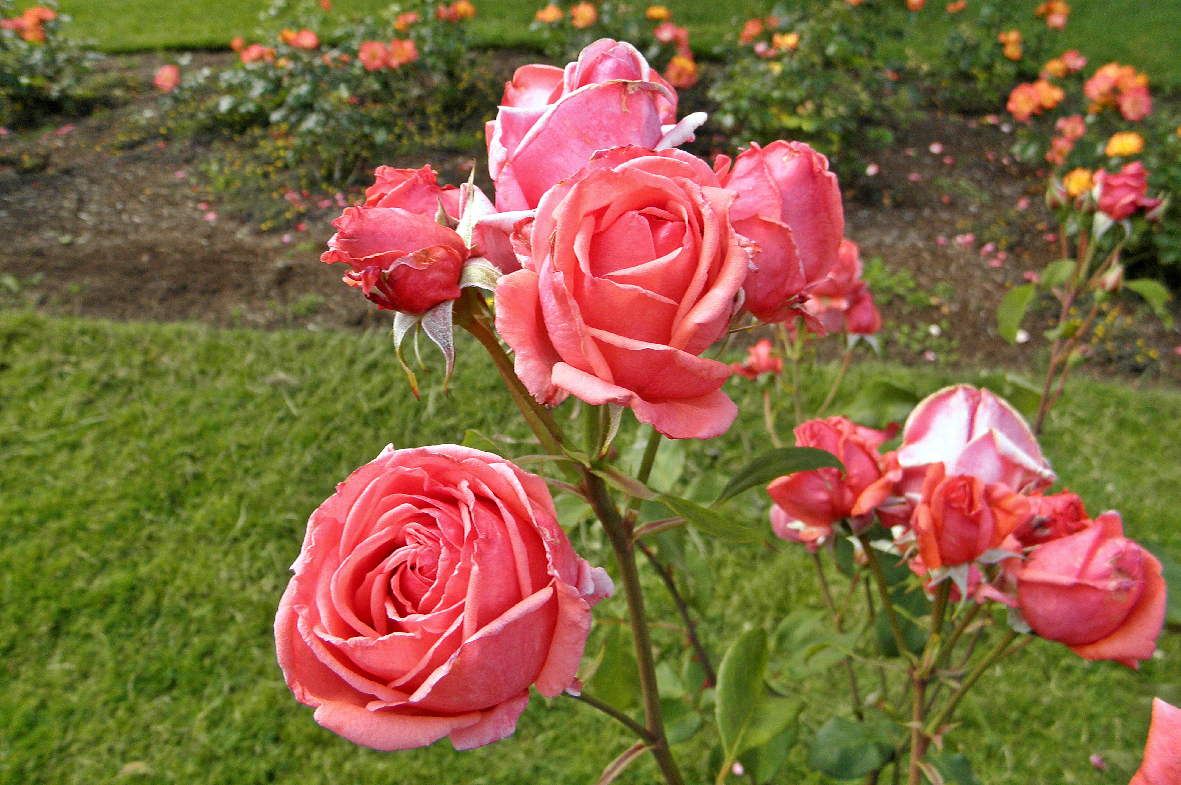 Grandiflora Rose 'Montezuma'; Salem, Or. 97301